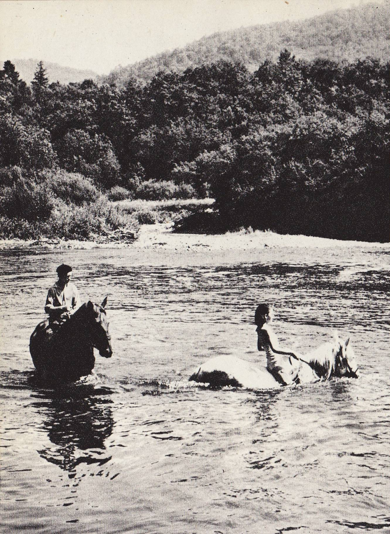 Horseriding in Bieszczady